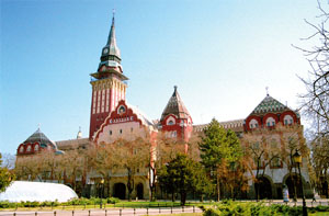 Town Hall in Subotica слика градске куће у суботици